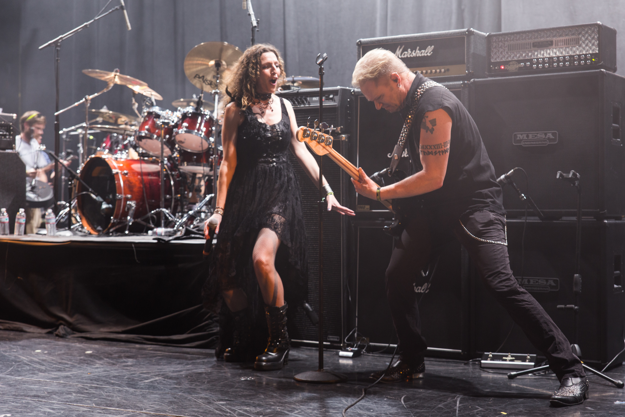 Therion performing at 70.000 tons of metal, january 2015